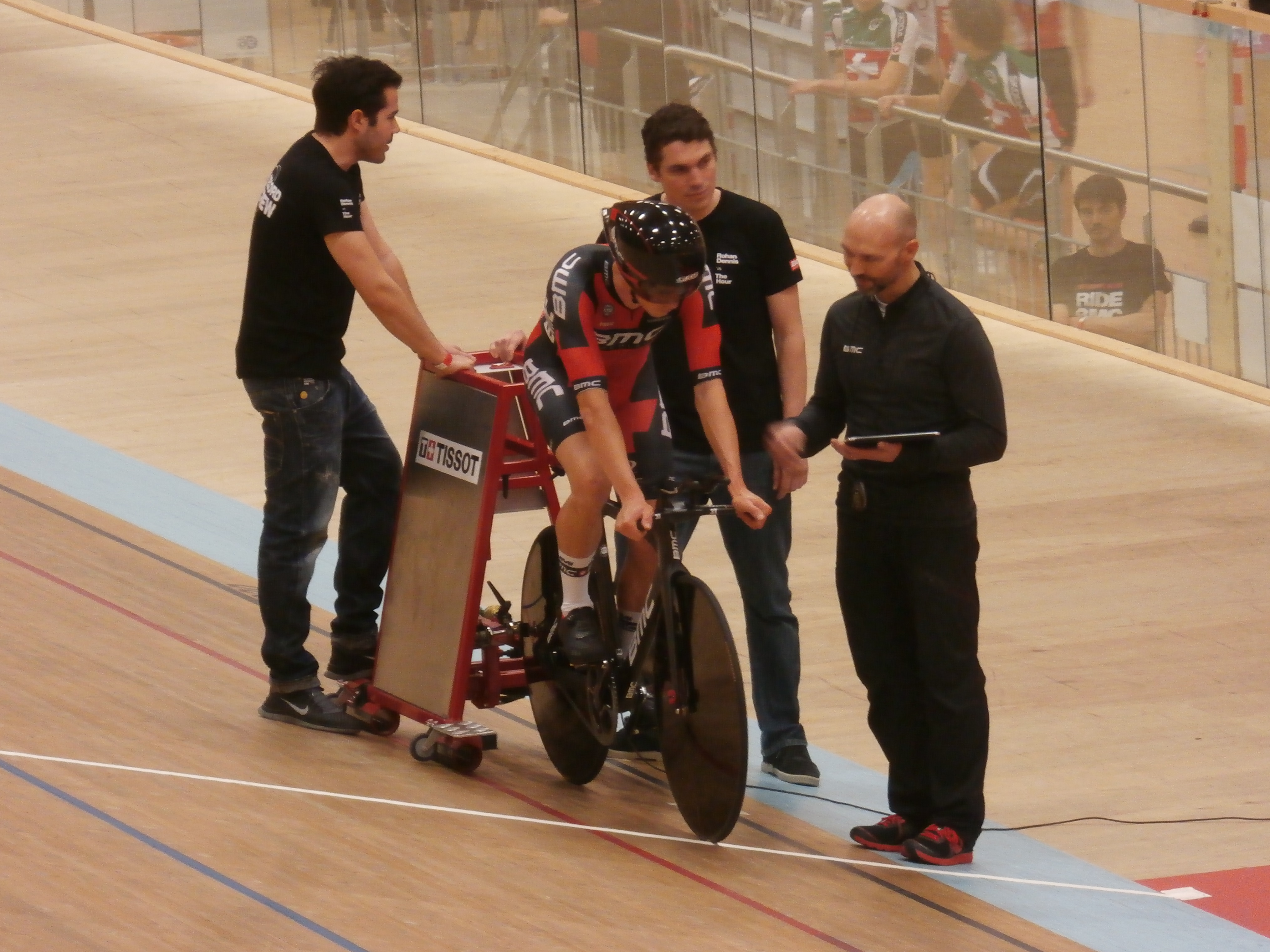 Rohan Dennis before the start of his hour record in Grenchen, Switzerland.